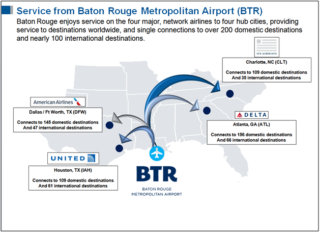 Found on